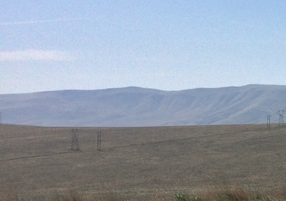 An image of the highest point of Lookout Summit